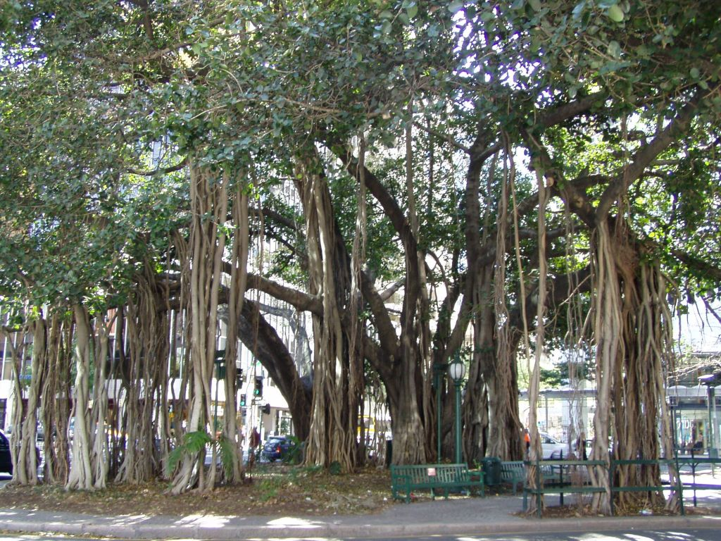 Tendrils: The trees on Creek St, right near riverside